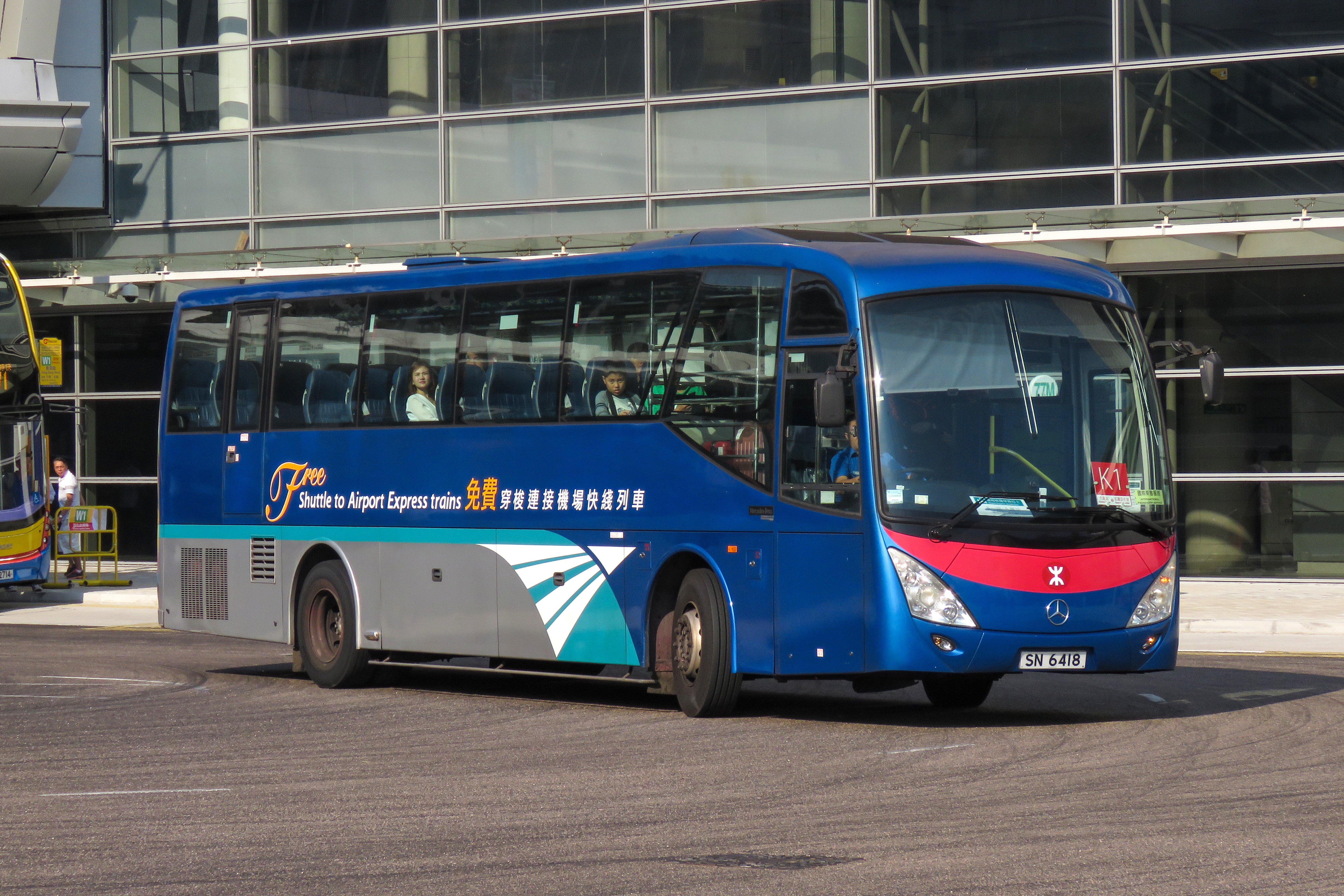 Here comes a Mercedes-Benz OC500RF dedicated for airport passengers to Kowloon Station.